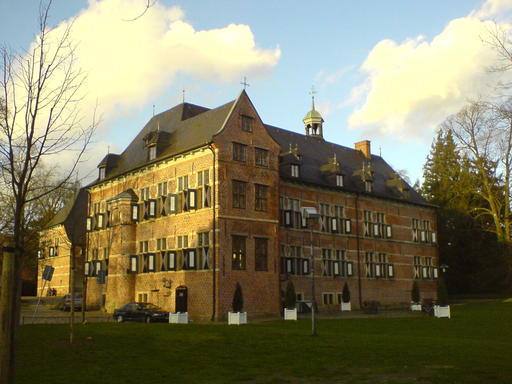 Description=Schloss Reinbek Source=myself Date=03.2007 Author=PodracerHH 19:22, 18 March 2007 (UTC)